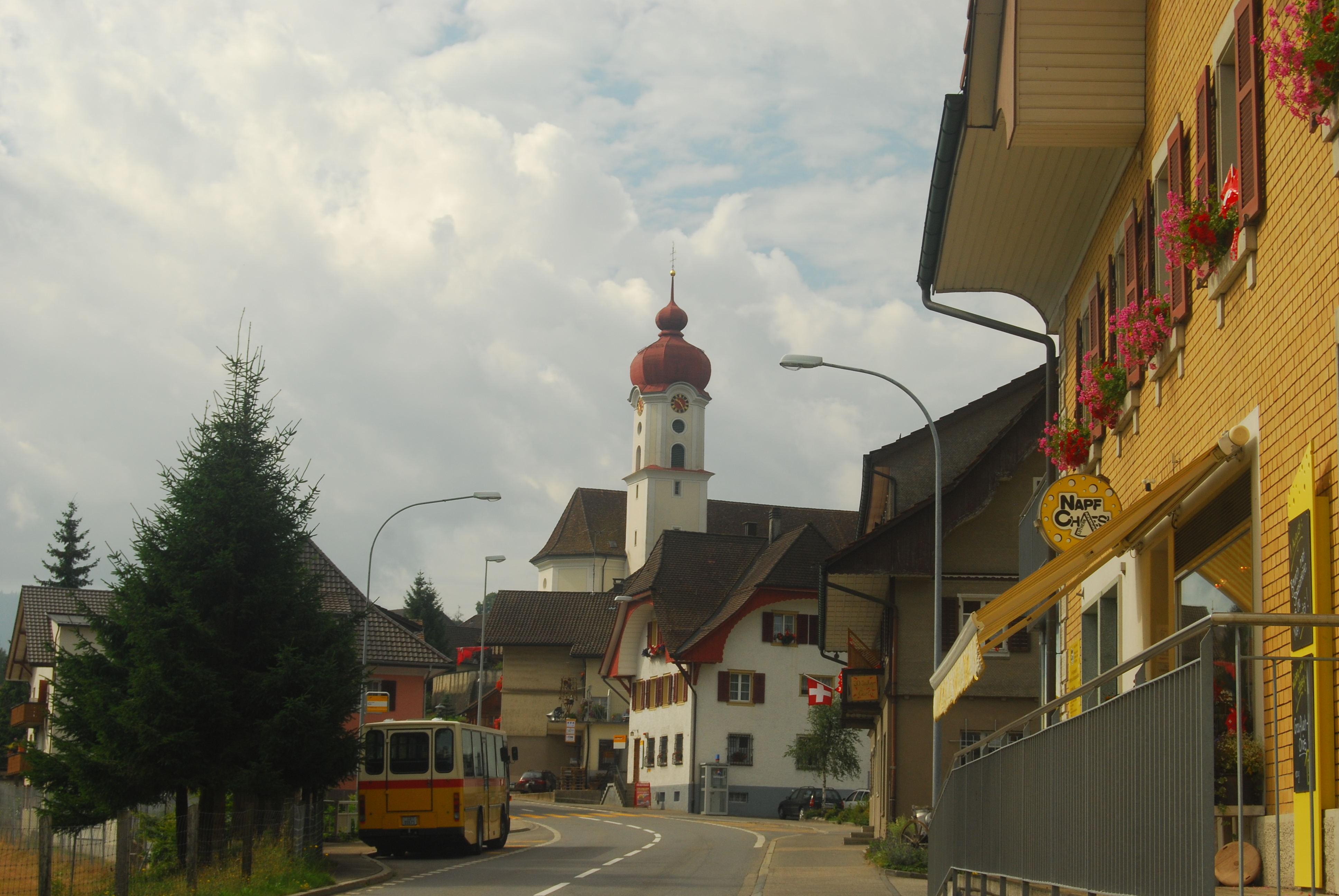 Village center of Luther with church and Napf cheese shop, canton of Luzern, Switzerland